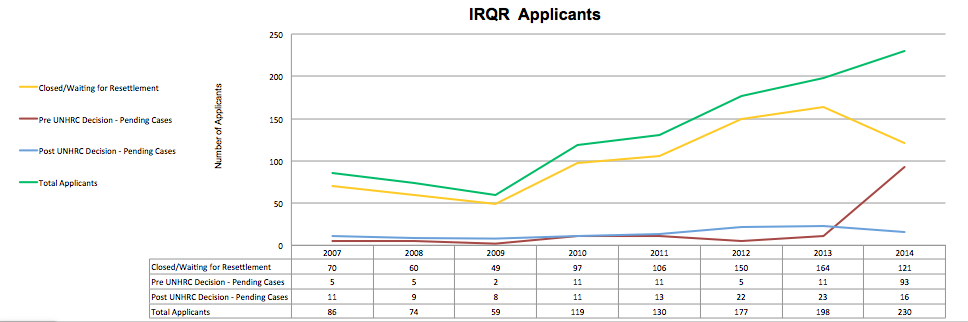 IRQR Applicant chart